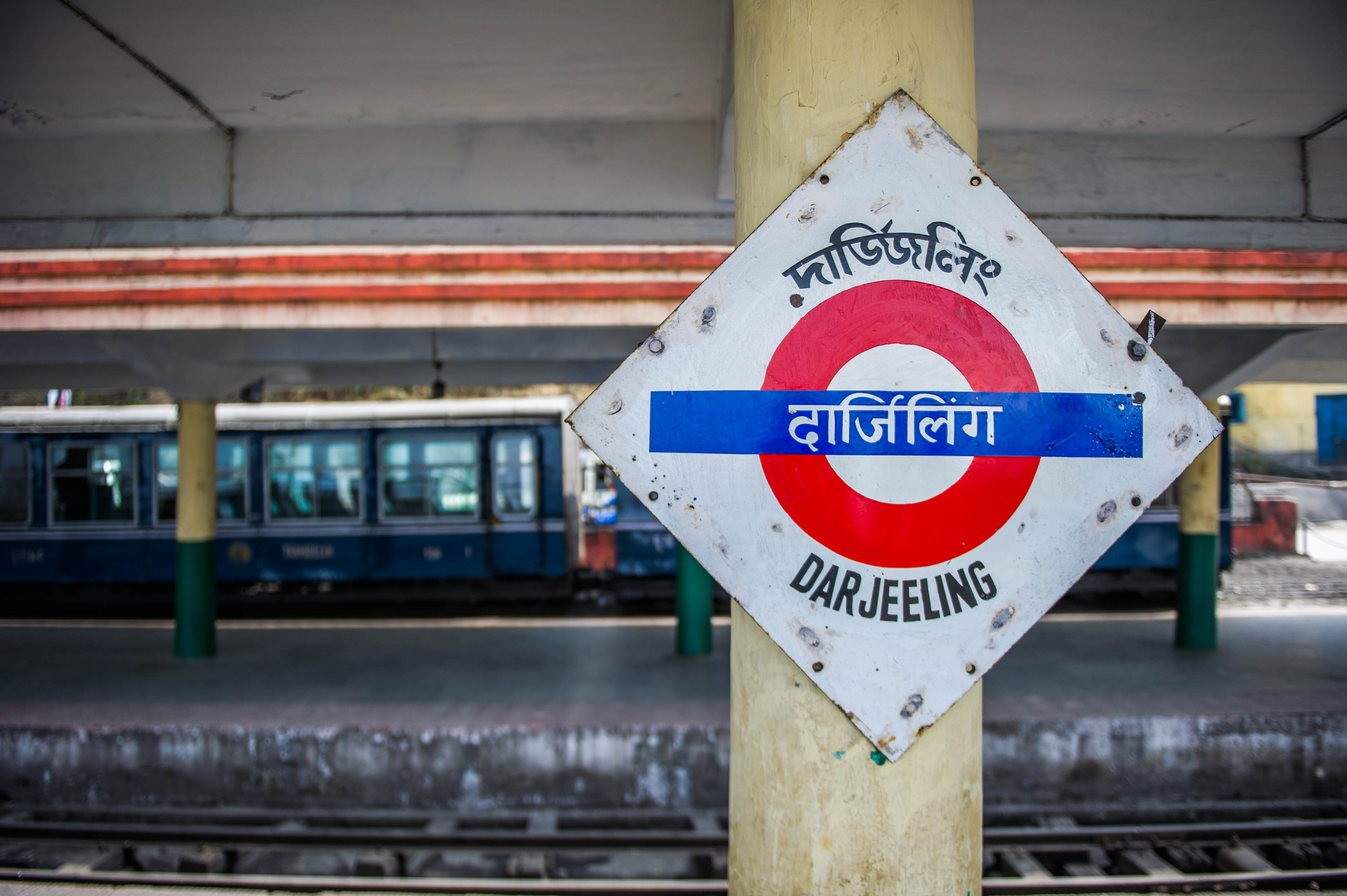 Darjeeling trainstation showing the logo of the station with the narrow-gauge passenger cars in the background.